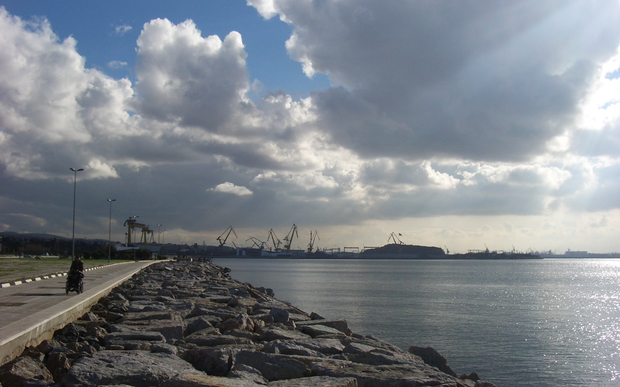 Shipyard/Pavli Bay